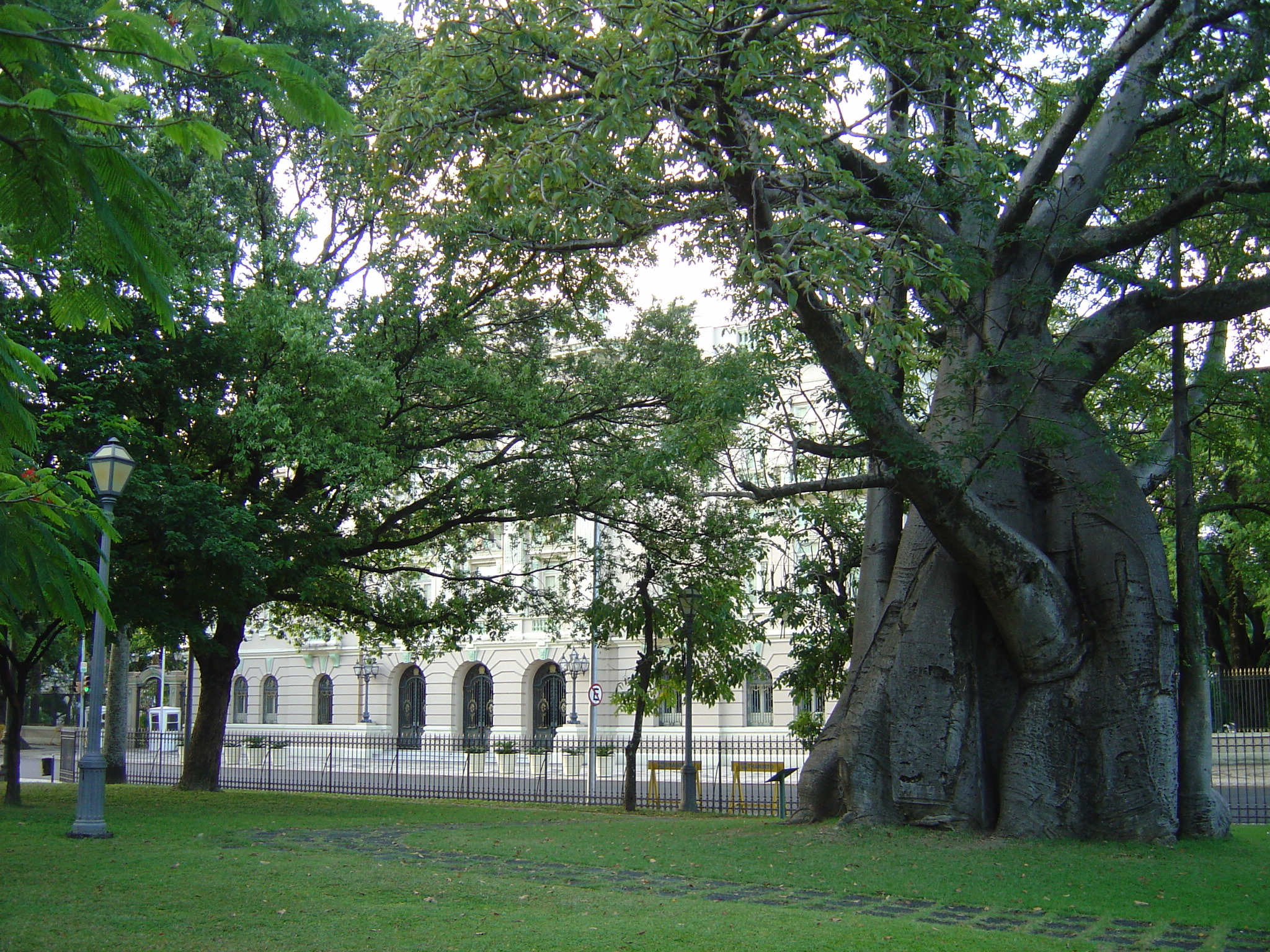 Baobab at Praça da República, Santana, Recife, possible source of inspiration for Saint Exupéry in the Little Prince. In the background is the Palace of Campo das Princesas (Princesses Field palace).